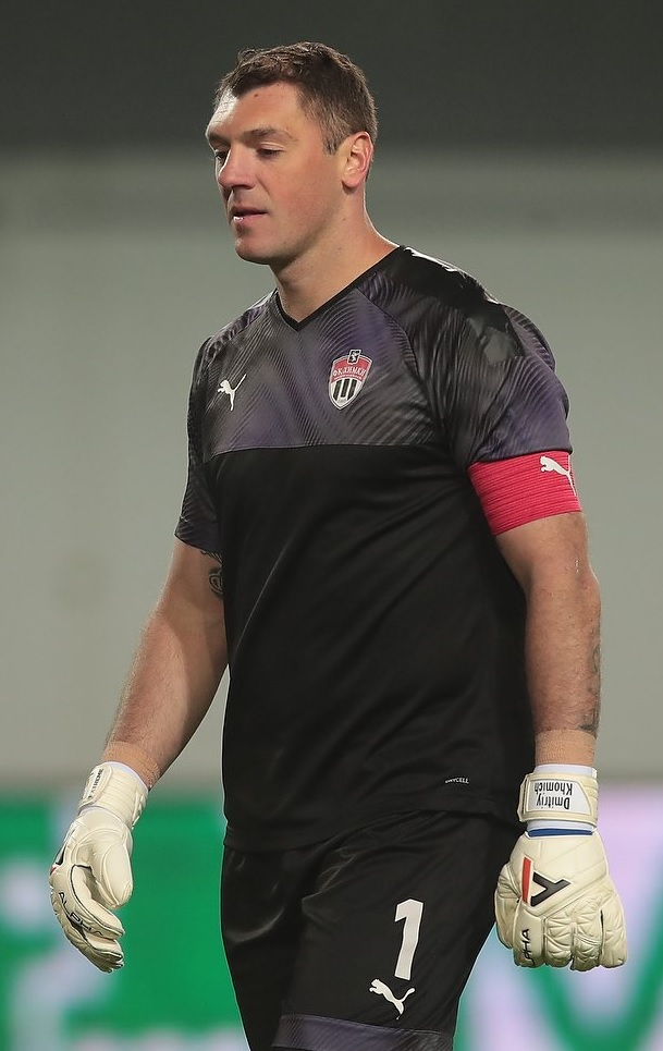 Dmitri Khomich with FC Khimki in a Russian Cup quarterfinal against FC Torpedo Moscow.